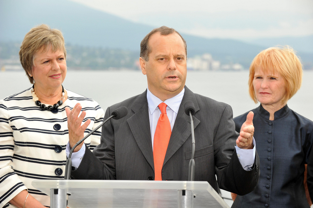 Brian speaks to the media in Vancouver, flanked by former Member of Parliament and Interim Leader of the BC NDP Dawn Black (left), and former BC Cabinet Minister and Leader of the BC NDP Joy MacPhail